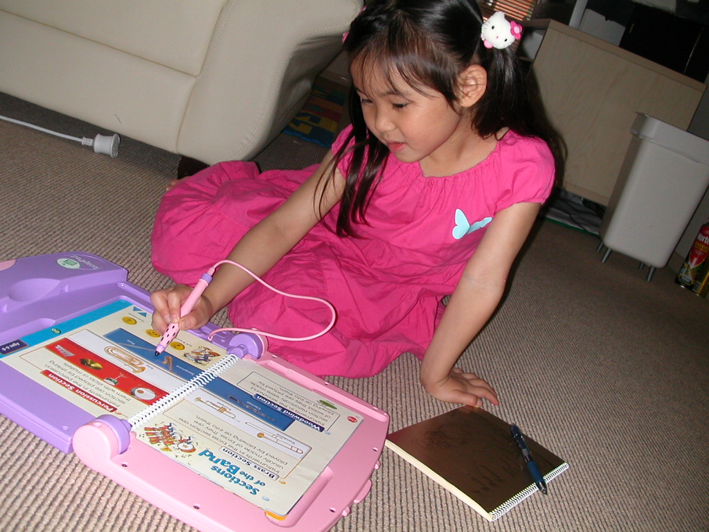 Jessica was concentrating on LeapPad